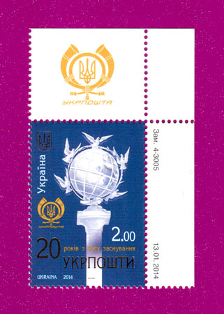 Stamp of Ukraine, 2014